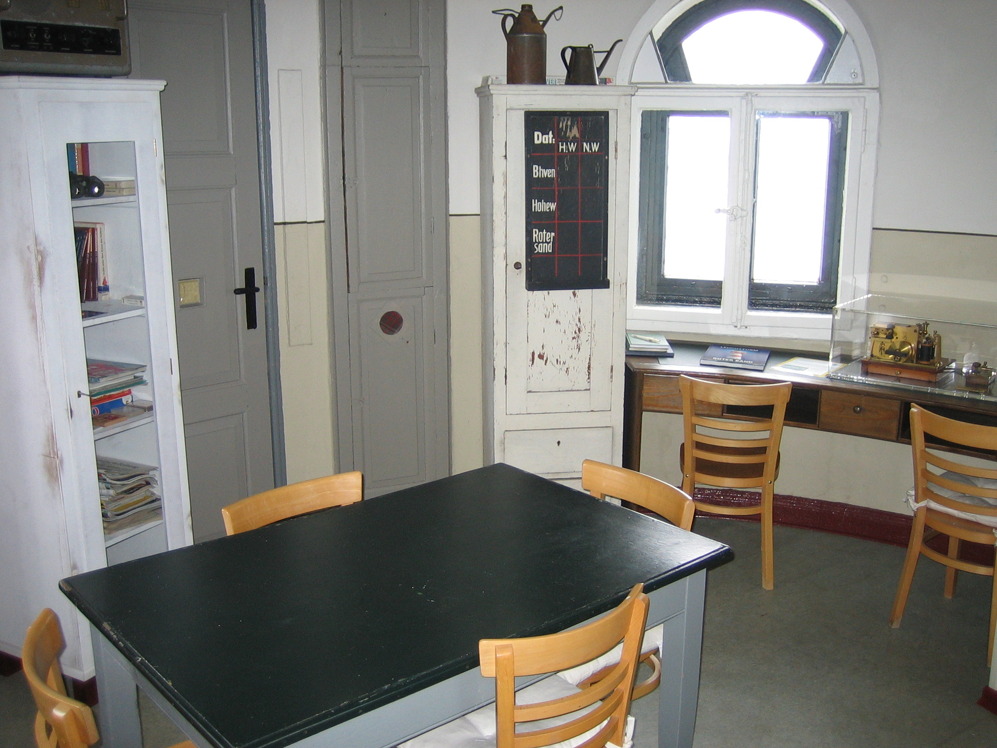 This is a self-taken picture of the lightfire Roter Sand near the german coast, near Bremerhaven. Photograph by Tim Rausch.